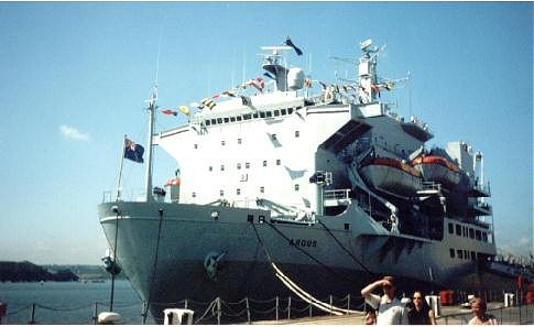 I, Adrian Jones, am the photographer. This photo was taken with permission and no classified details or locations are compromised by this image.